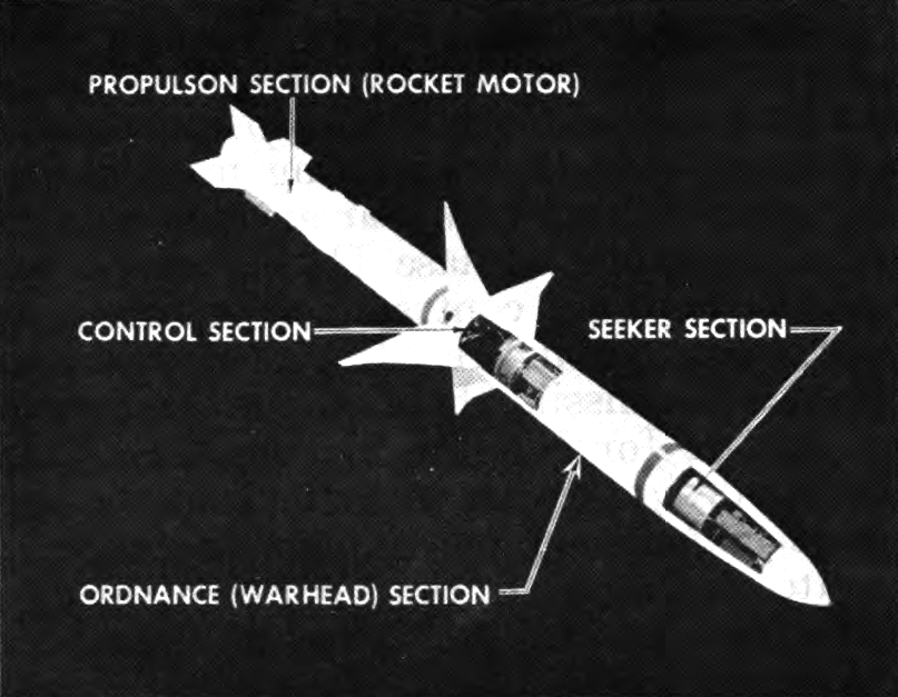 HARM missile principal subsystems